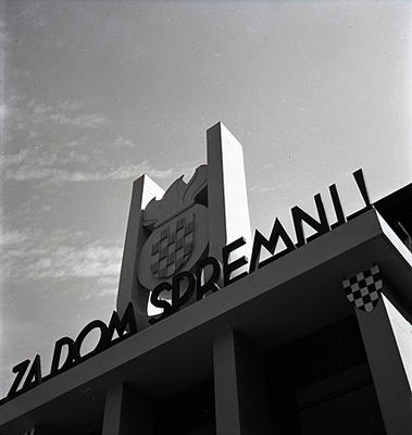 Ustasha coat of arms on a building at Zagrebacki Zbor, 1942. "Za dom spremni!" written below is a ustasha battle cry that means "for the homeland ready!" as in ready to do battle for the homeland.